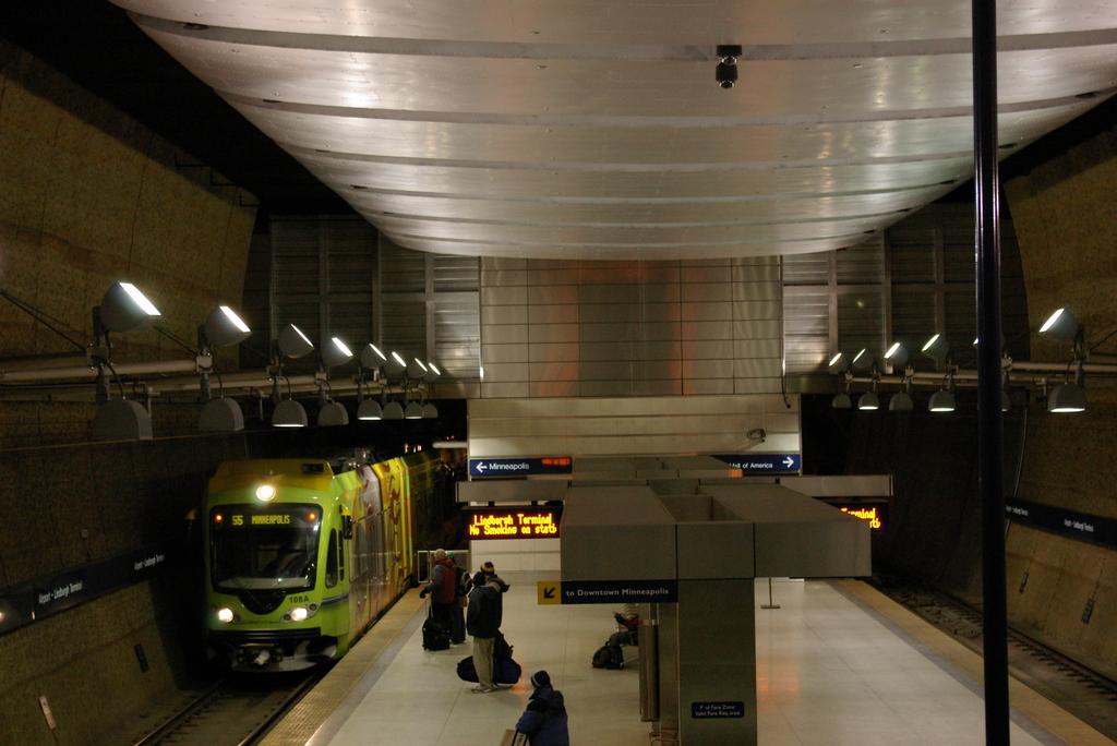 Airport-Lindbergh Terminal on Hiawatha Line of Metro Transit Light Rail in Minneapolis, Minnesota